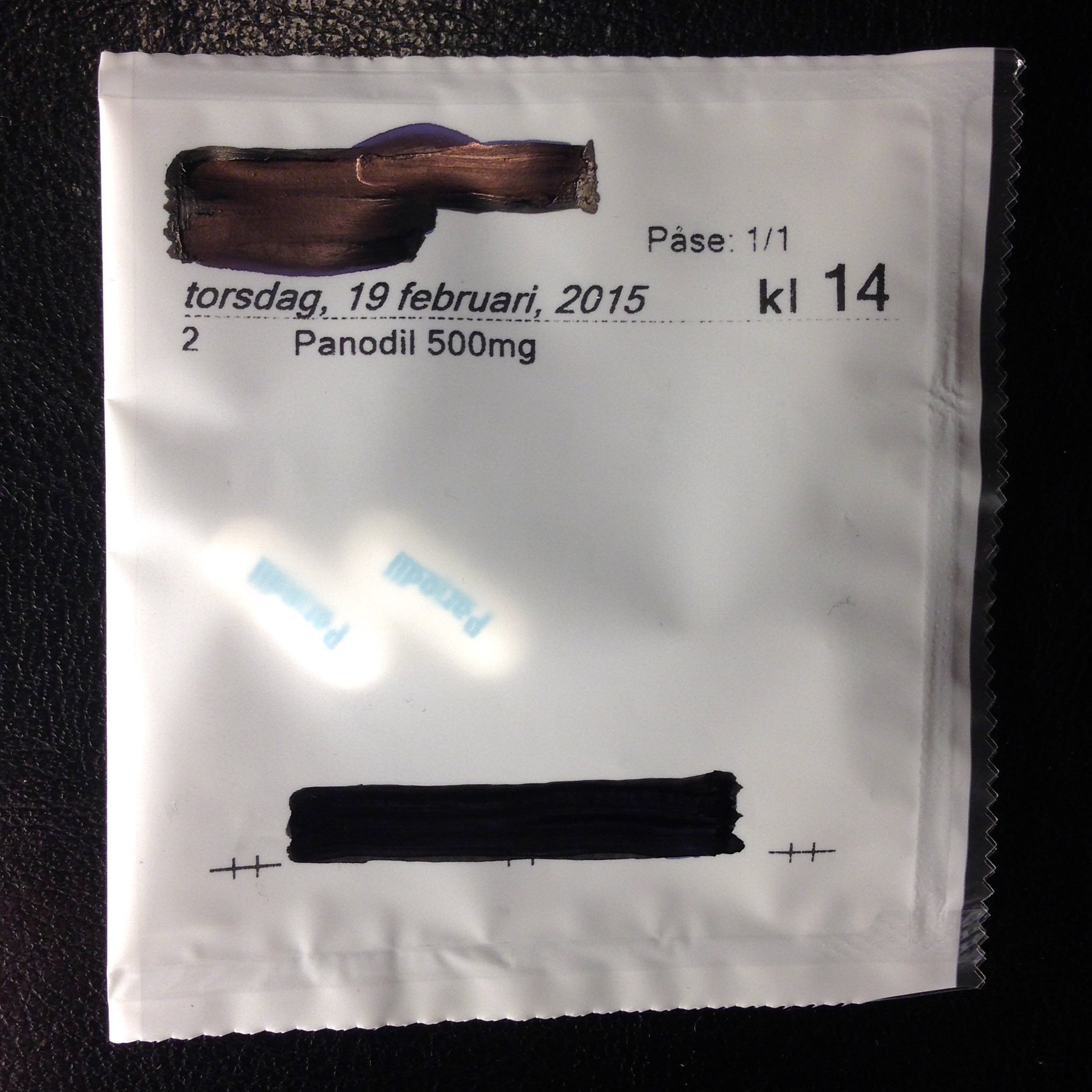 Prepacked pills.